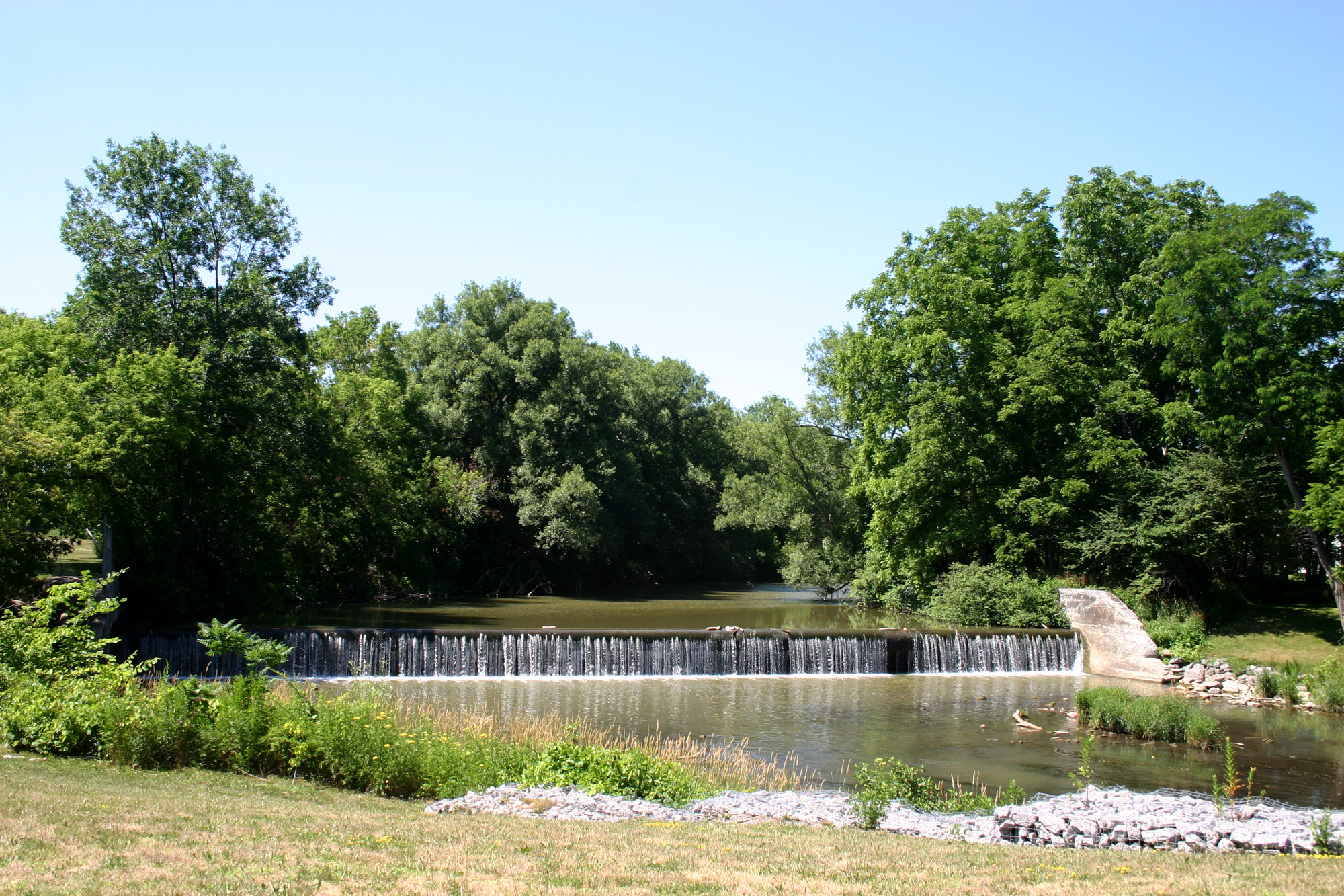 Old mill dam at the big bend of the Tondawanda, downtown Batavia Image copyleft: Image taken by me, released under GFDL, Pollinator 14:01, 9 March 2006 Currently, the Genesee County Courthouse is located at this location. A small historical park was made at this site in 1998 by Ryan T. Fava as an Eagle Scout Service Project. It commemorates the significance of the big bend of the Tondawanda Creek in the site selection for the City of Batavia. (UTC)